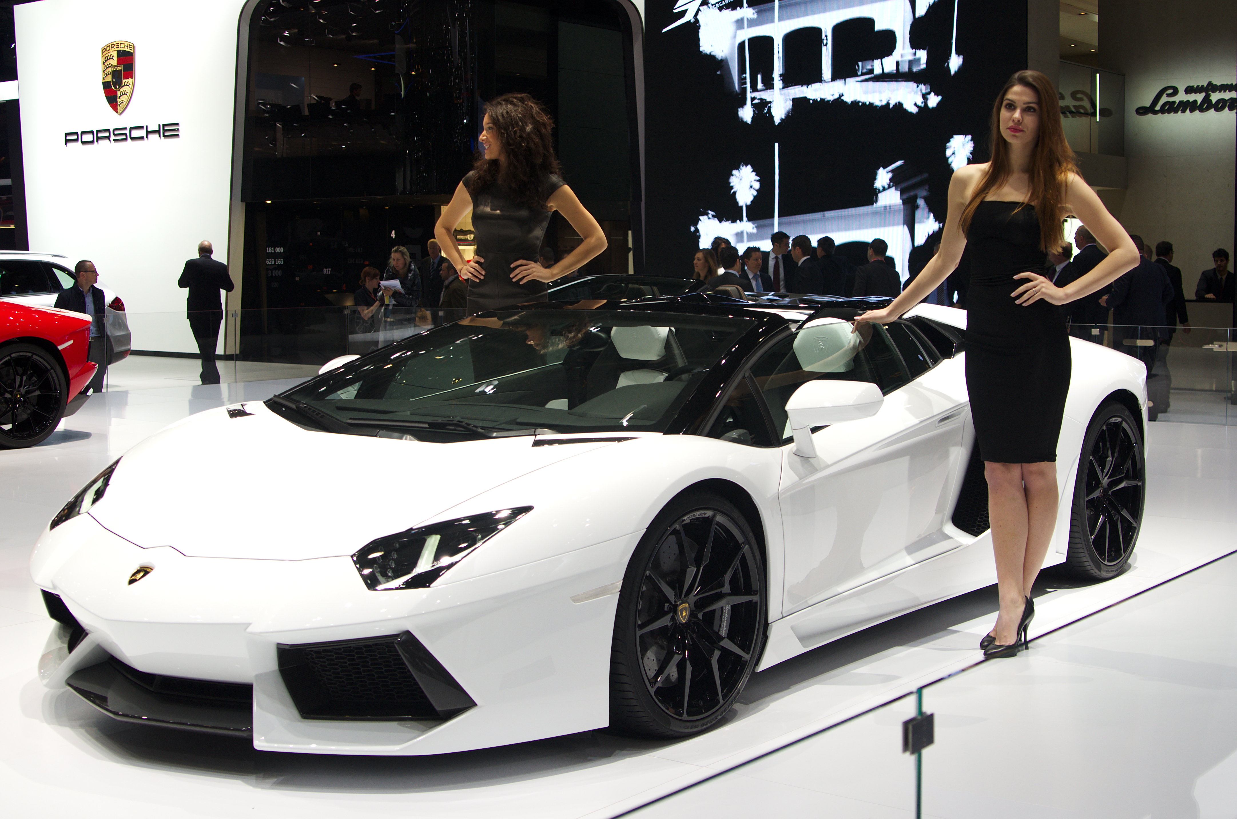 Geneva MotorShow 2013 - Lamborghini Aventador white